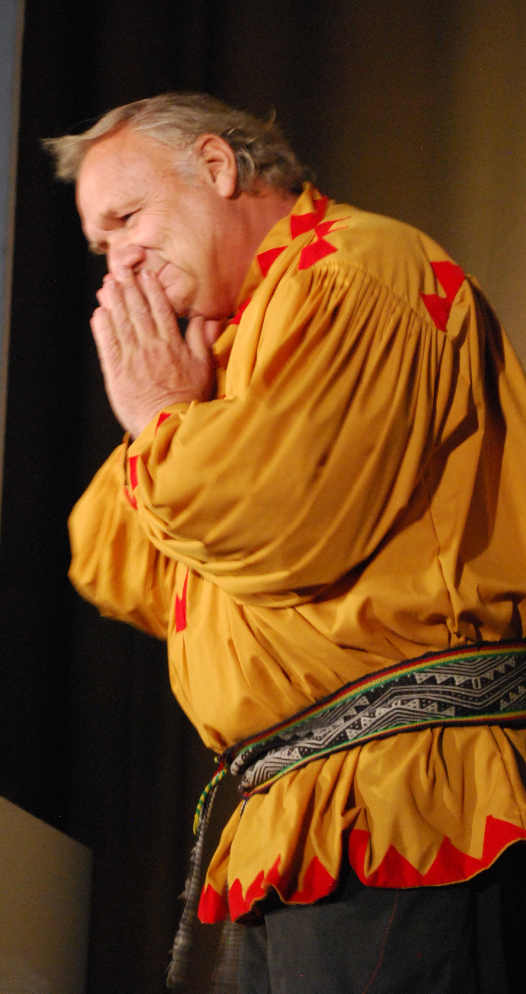 Pianist Romayne Wheeler at the Tec de Monterrey, Mexico City Campus